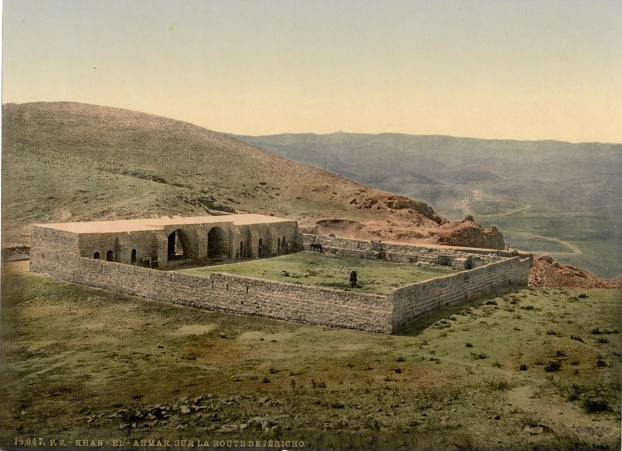 On the road to Jericho Khan-el-Ahmar Holy Land (i.e. West Bank)